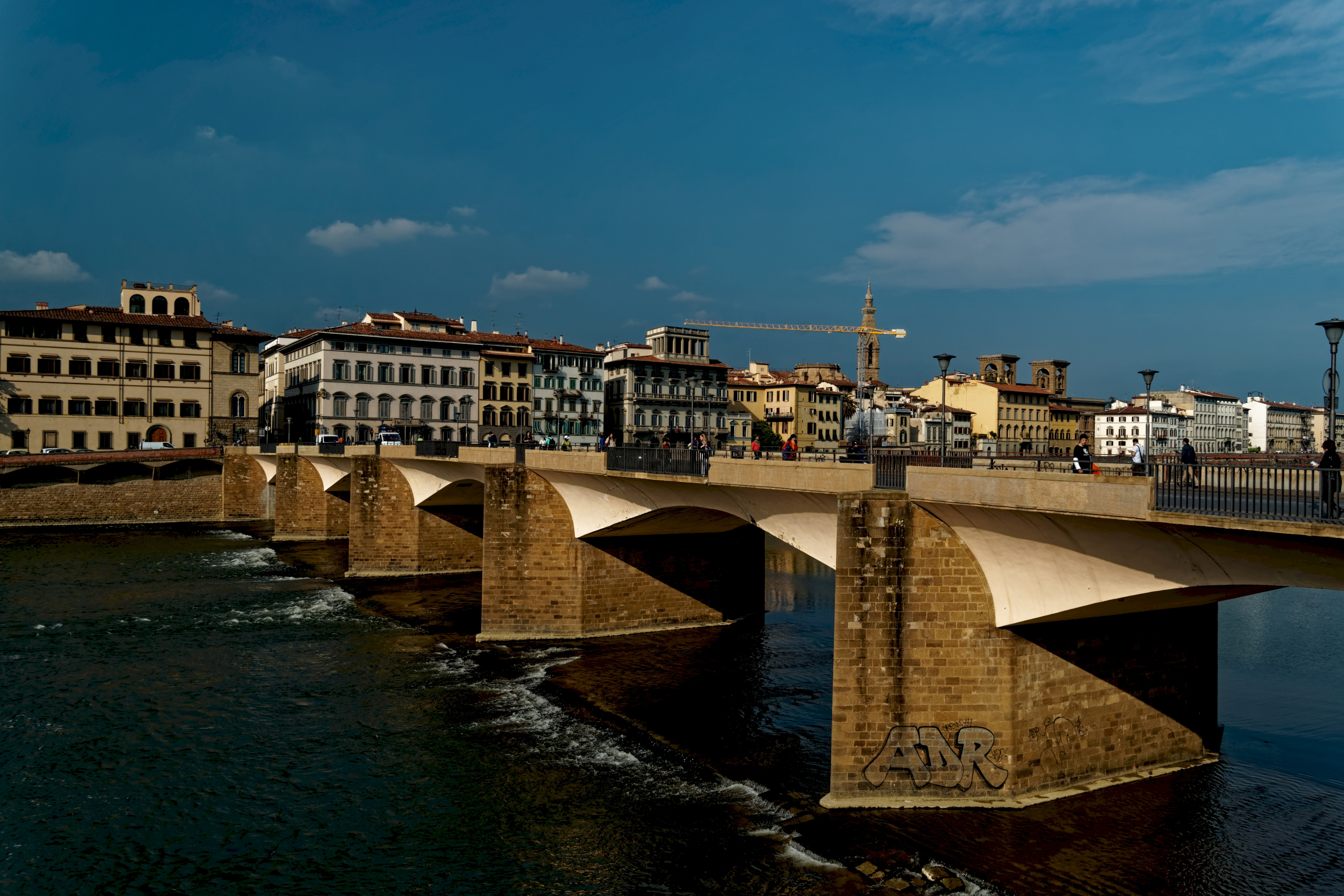 Firenze / Florence - Lungarno Torrigiani - View NNE on Ponte alle Grazie 1957